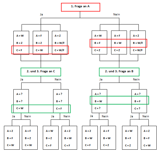 Diagramm zur Lösung des vereinfachten Rätsels